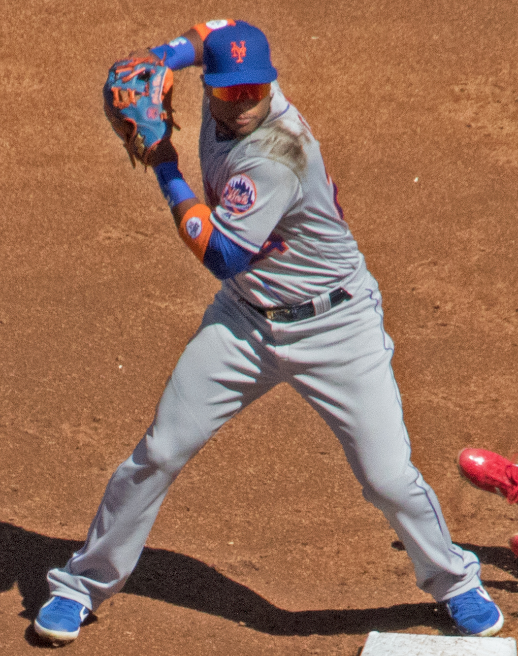 Robinson Cano of the New York Mets prepares to throw the ball as a Washington Nationals baserunner slides into second base during a 2019 game at Nationals Park in 2019.